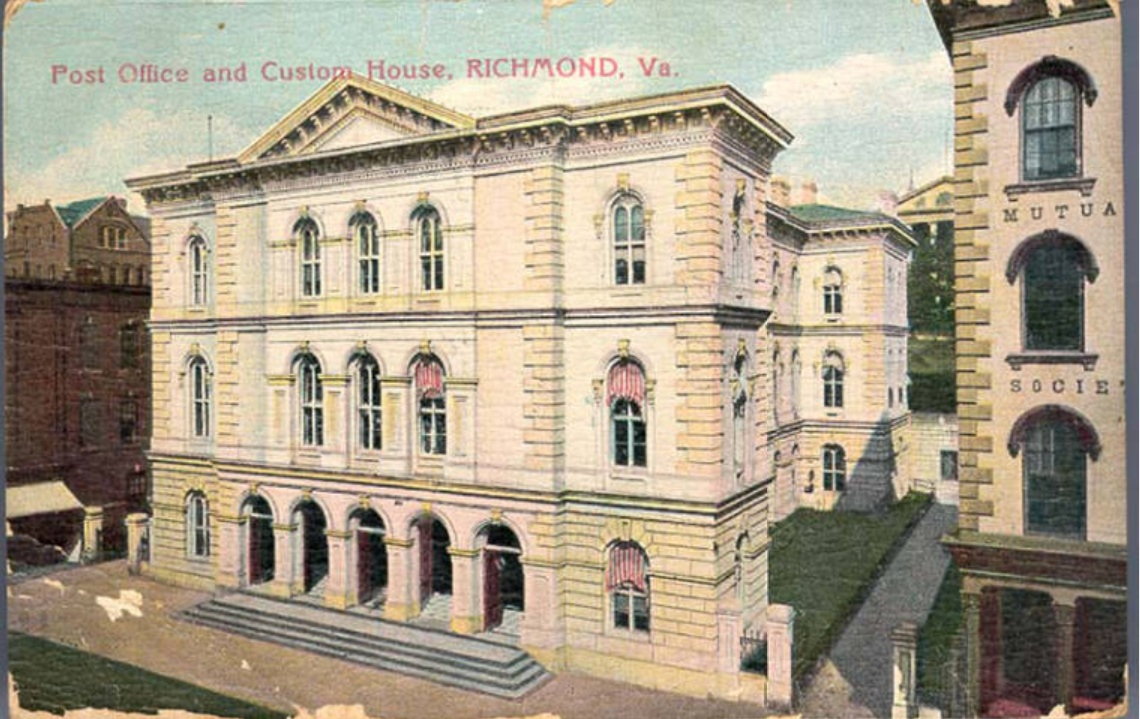 U.S Custom House & Post Office, Richmond, VA, 1887-89 Renovation, Main Street Front, Post Card-1900